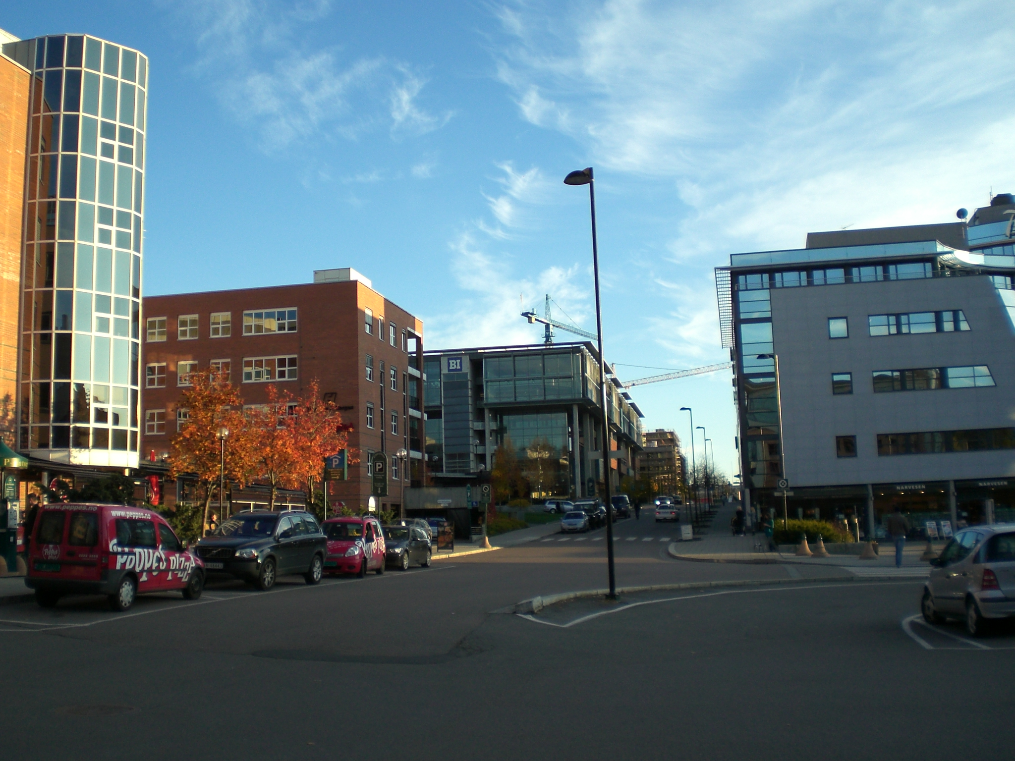 Nydalsveien in Nydalen, Oslo, Norway